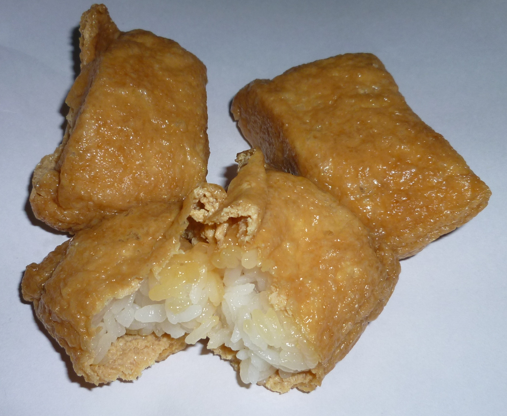 Inarizushi (稲荷寿司) is a pouch of fried tofu filled with usually just sushi rice.